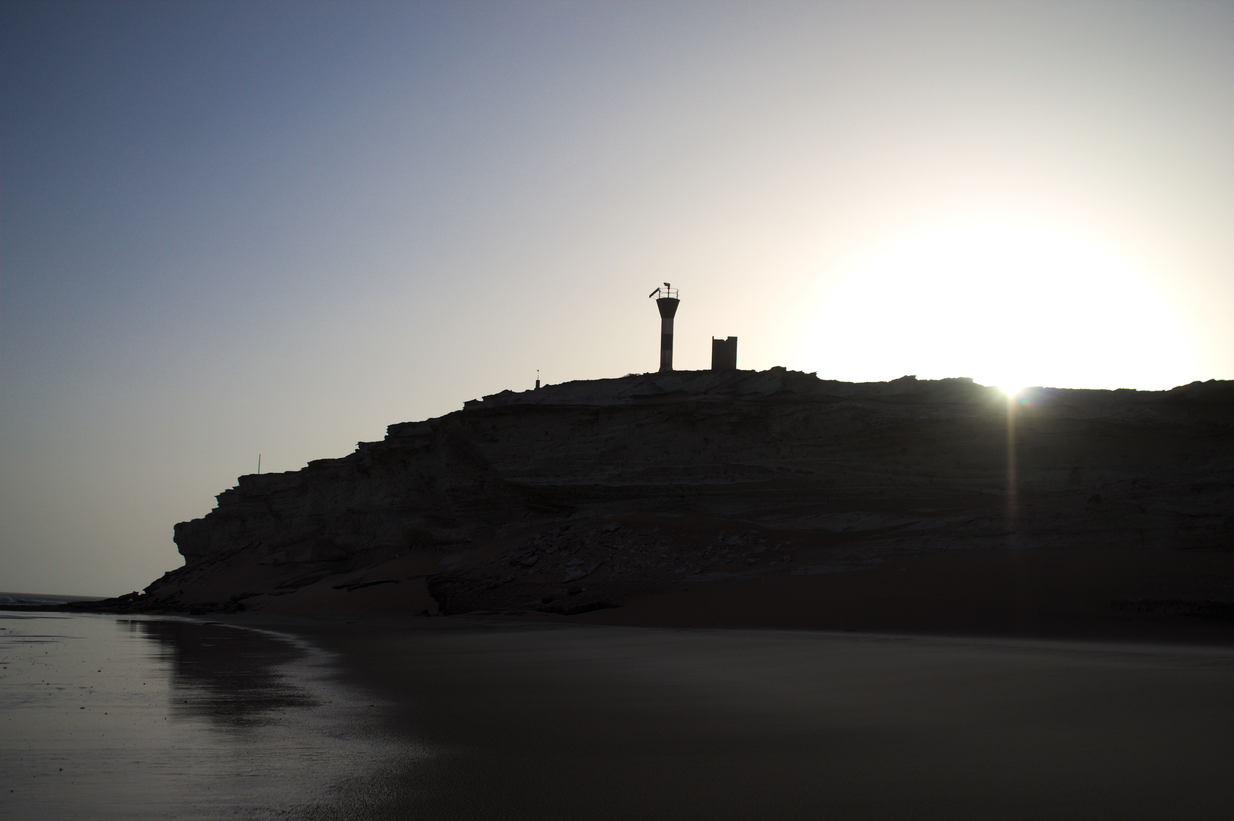 The ship ran aground near a lighthouse. The area is an environmental zone, seeking protection of seals. There's a museum up near the lighthouse.